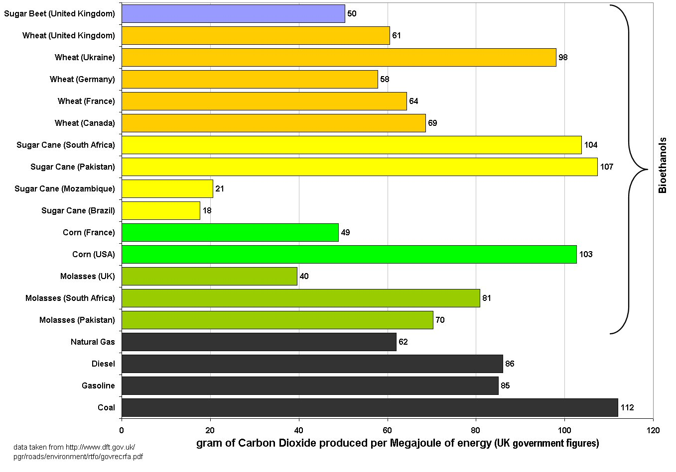 Excel Graph showing the Carbon Intensity of Bioethanols. Derived from information found in the UK crown copyright document.[1]